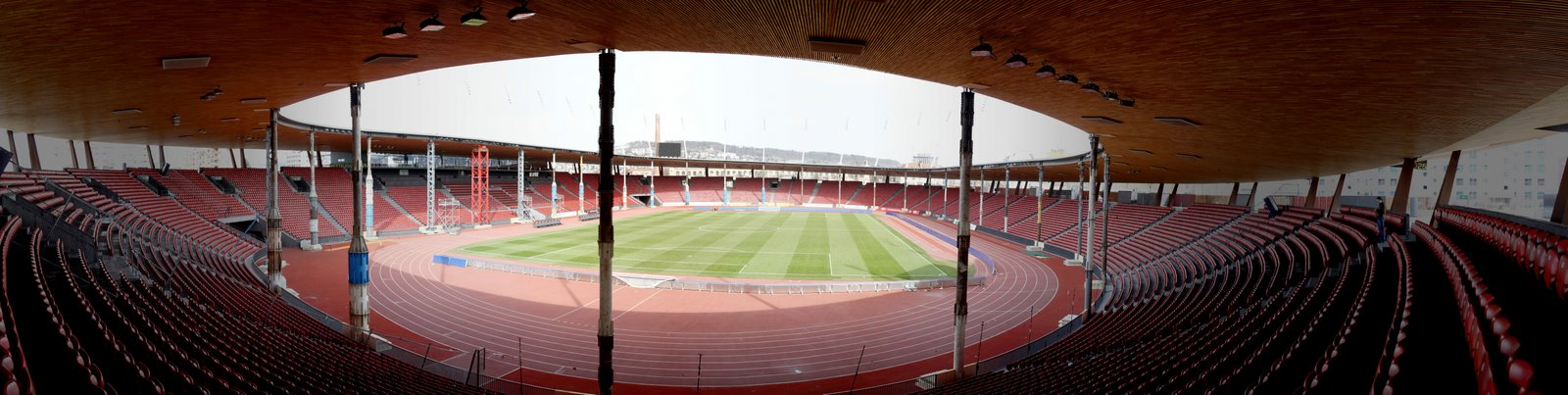 The roof of the Letzigrund Stadium supported by pilars after the discovery of cracks near the roof's supports